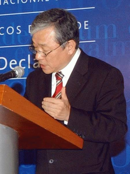 Jong-Wook Lee, Director-General of the World Health Organization. Source: Valter Campanato/ABr. 07.Dec.2003 Photograph copied from the website of Agência Brasil, which states: The Agência Brasil makes images and photos available free of charge. To comply with existing law, we kindly request our users to list the credits as in the example: photographer's name/ABr. — A Agência Brasil disponibiliza, gratuitamente, imagens e fotos. Para cumprir a legislação em vigor, solicitamos aos nossos usuários a gentileza de registrar os créditos como no exemplo: nome do fotógrafo/ABr. This photo appeared as 11856.jpg on 07.Dec.2003. The photo was downloaded, cropped, and resized by Hajor.